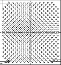 41-ball leadfree FCBGA8 13x14 mm intel atom z-series contact scheme